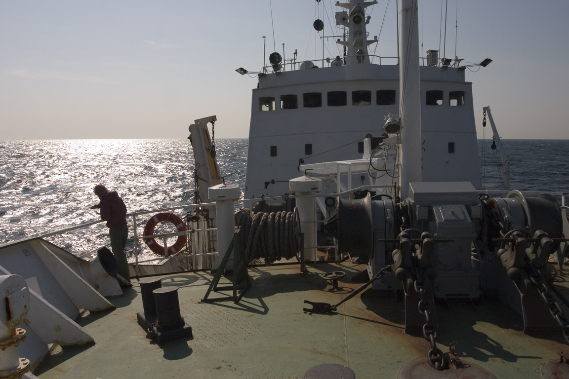 Professor Shtokman in Baltic Sea IMO Number: 7703027 MMSI Number: 273416400 Callsign: UAUQ Length: 68 m Beam: 12 m